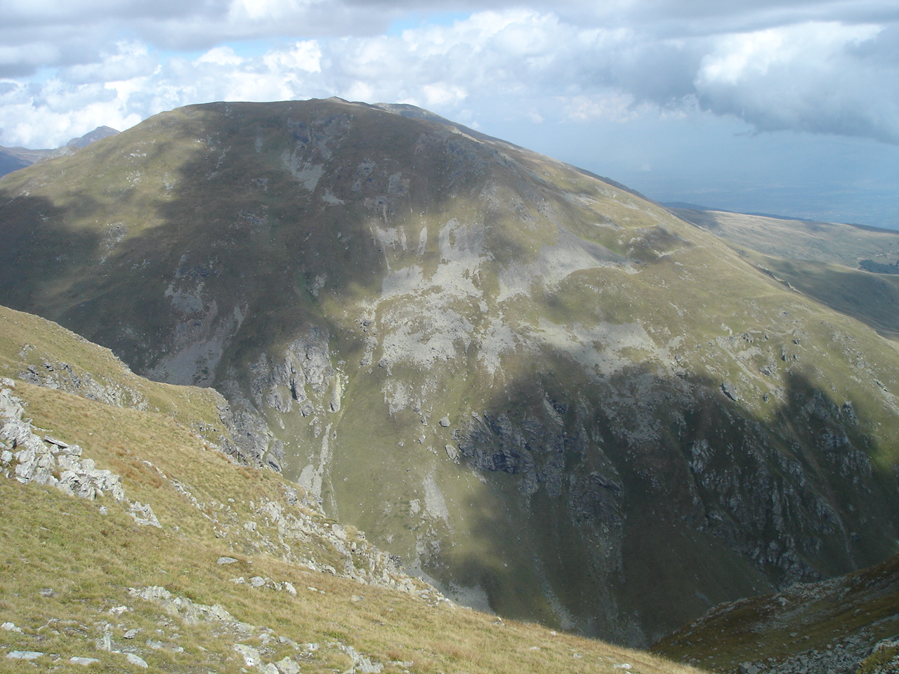 Rudoka peak on Shar Mountain, Macedonia